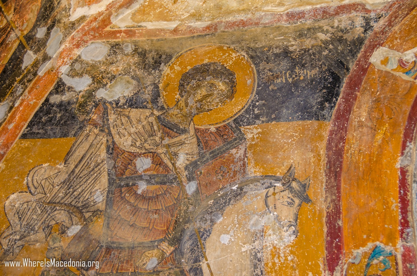 Slepche Monastery Fresco